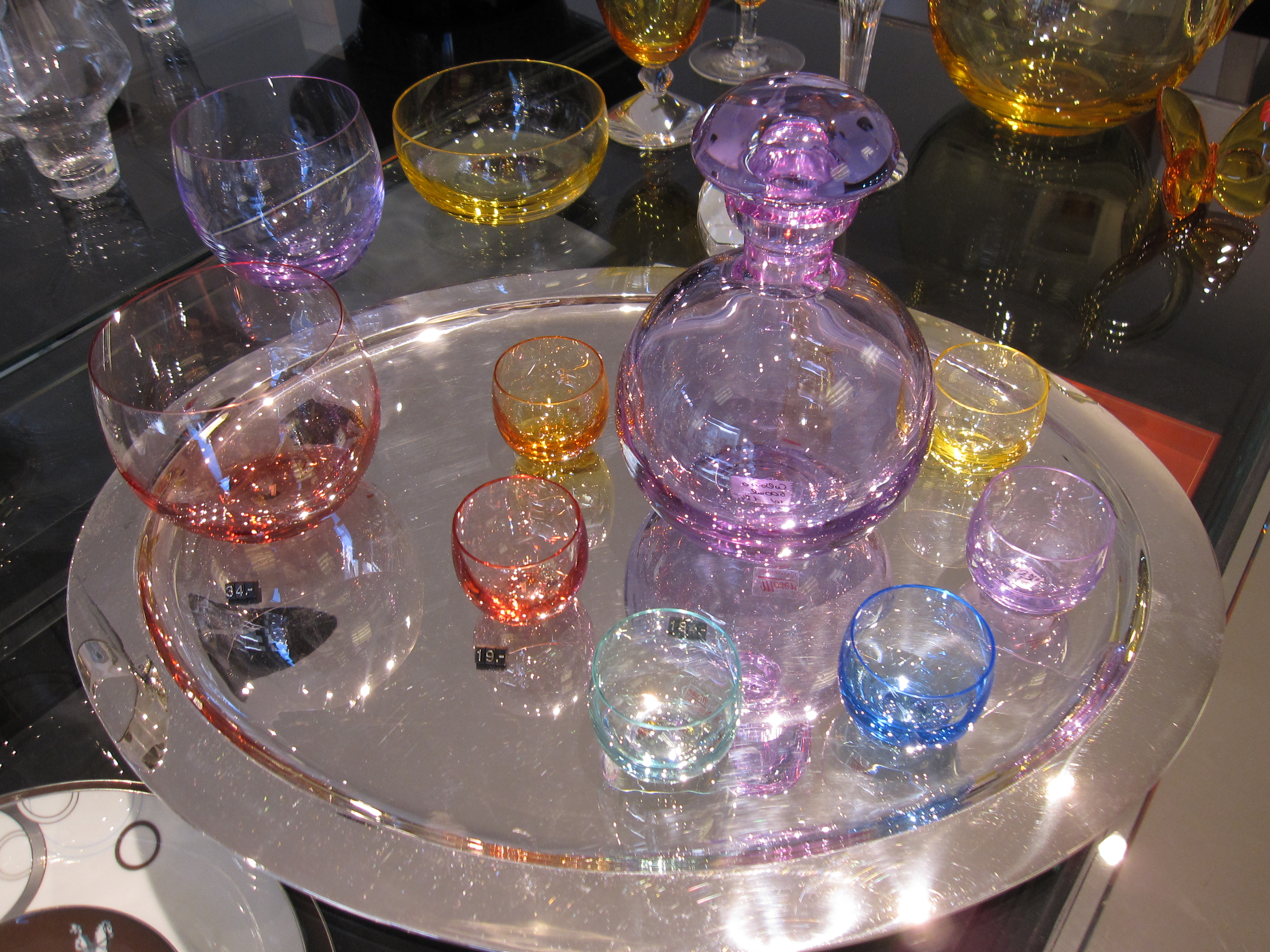 Culbuto 16520 by Moser glass, Design Rudolf Eschler, 1935